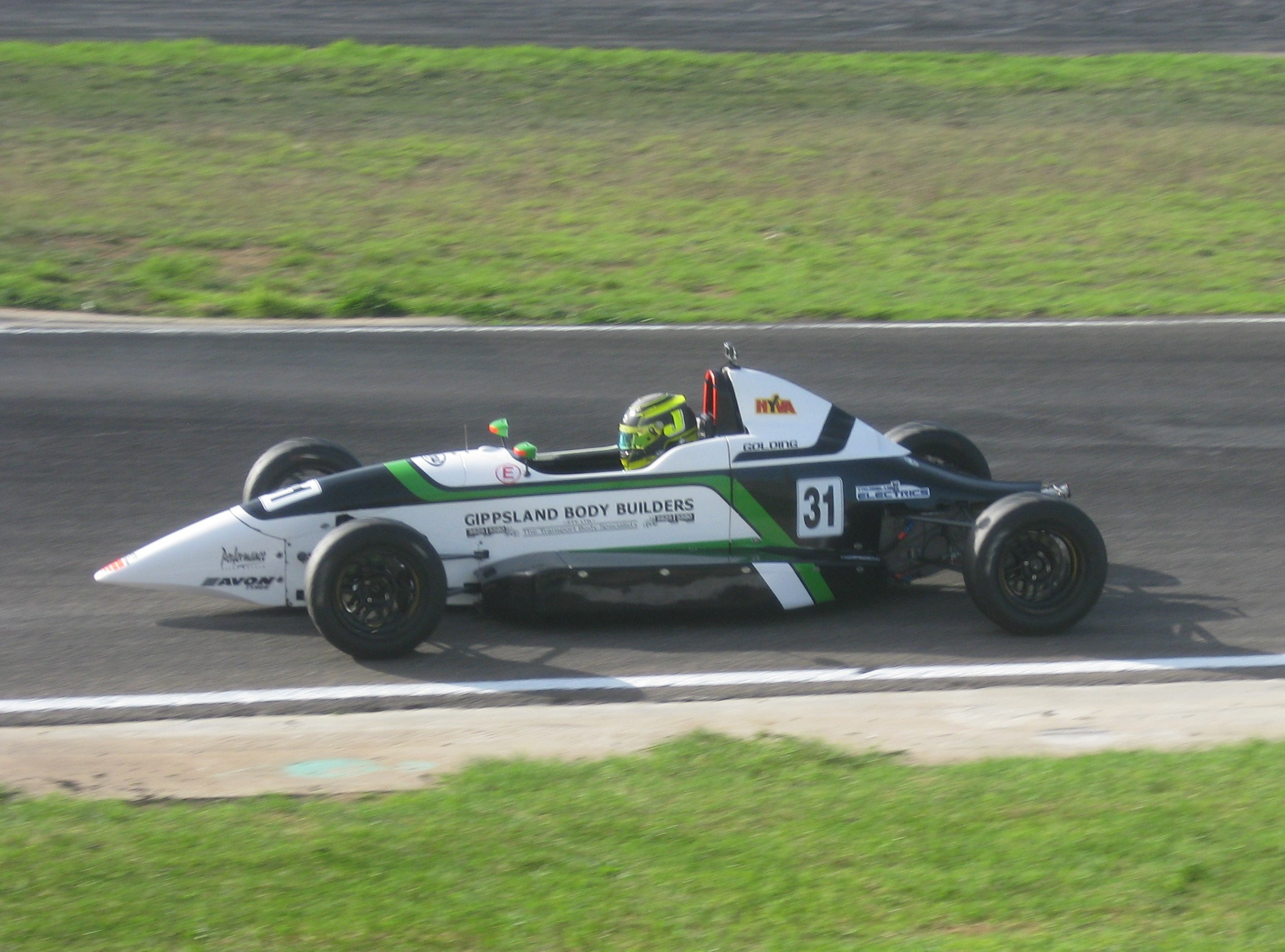 The Spectrum 014 of James Golding at Mallala Motor Sport Park. Golding was contesting Round 1 of the 2014 Australian Formula Ford Series